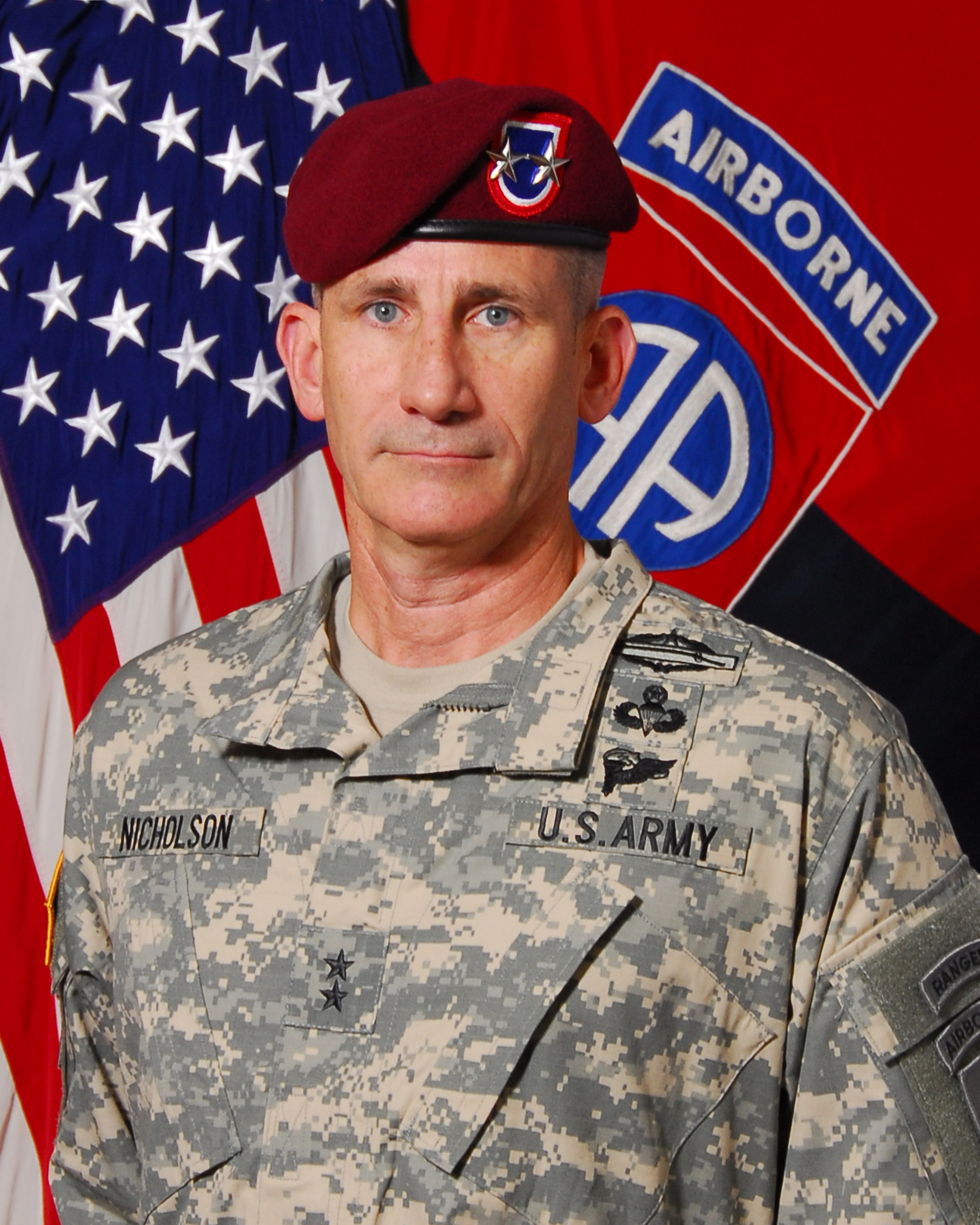 Maj. Gen. John W. Nicholson, Jr.